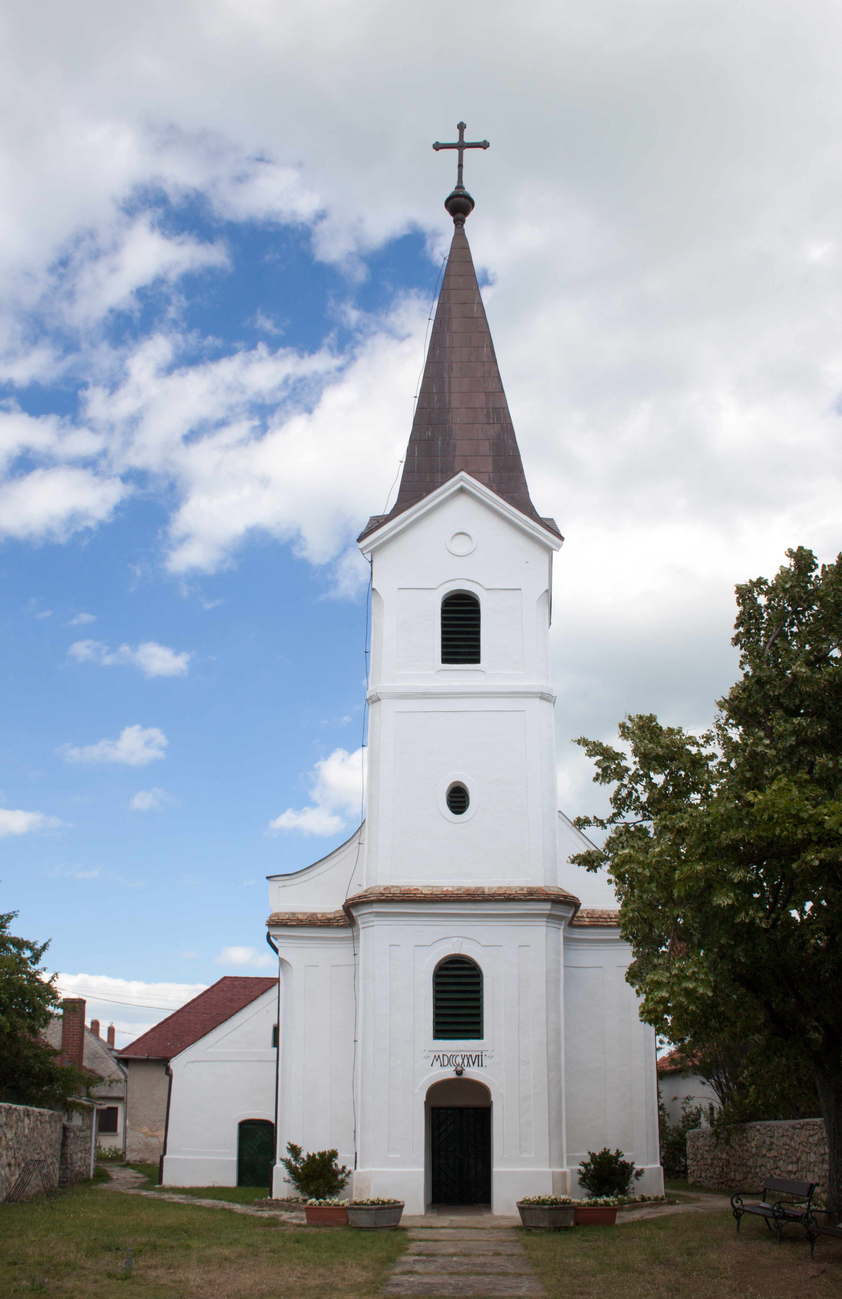 Catholic church in Balatonakali